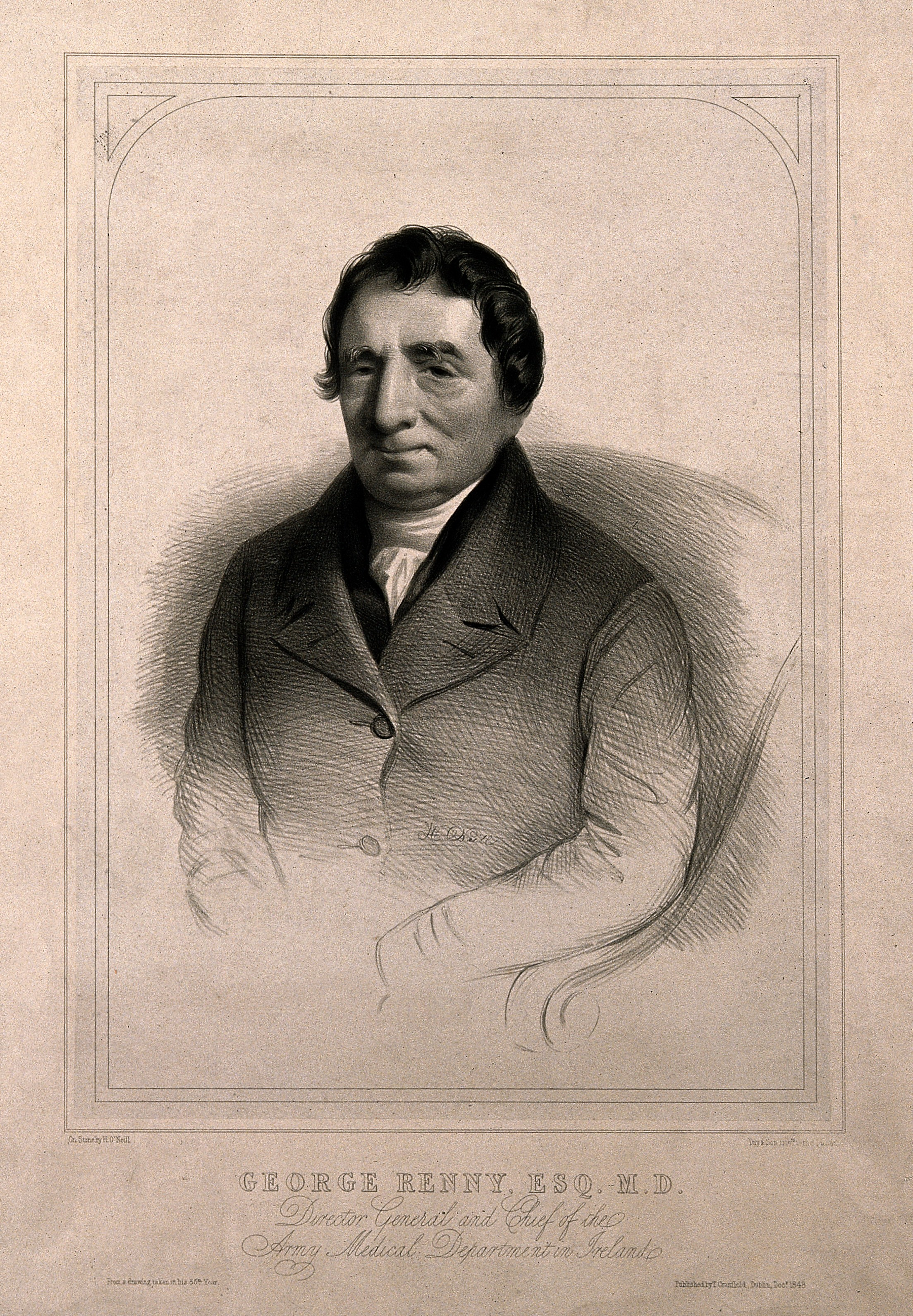 Genre/Technique: Portrait prints. Lithographs. Subject name: Renny, George, approximately 1760-1847